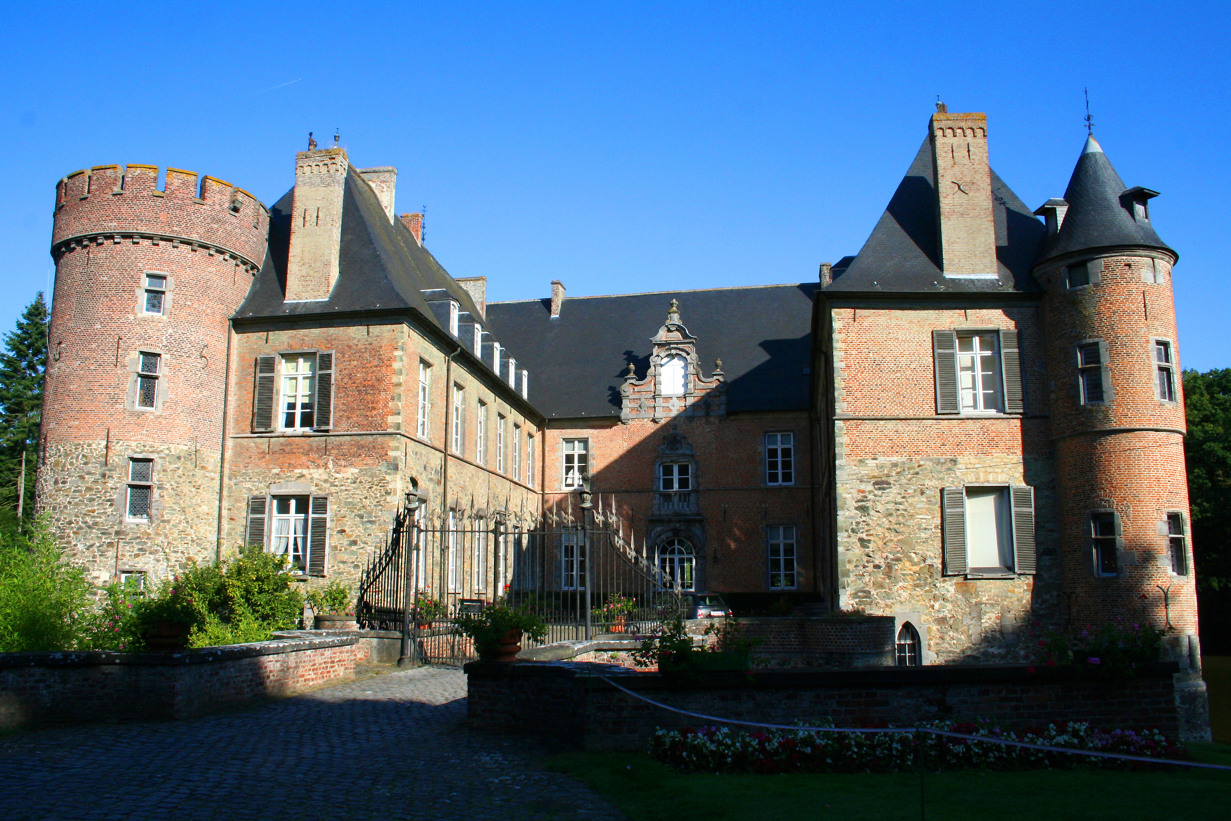 Braine-le-Château, the Robiano castle (XIIth century).